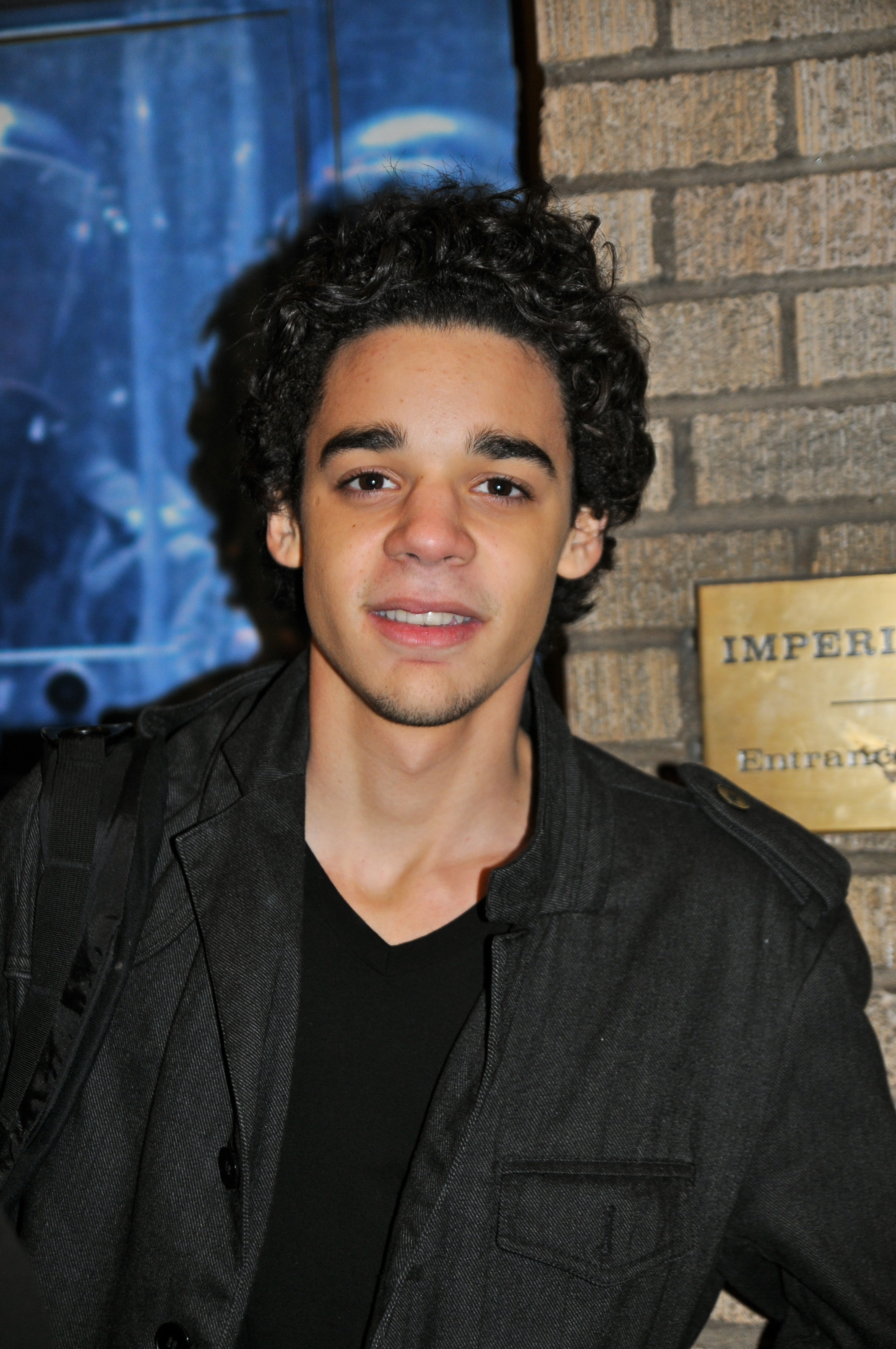 Picture of David Alvarez (actor).